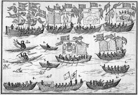 The Greenland Parade (Det Grønlandske Optog) on 9 November 1724 when two inuits sail through the canals in Copenhagen, Denmark, accompanied by challups with musicians